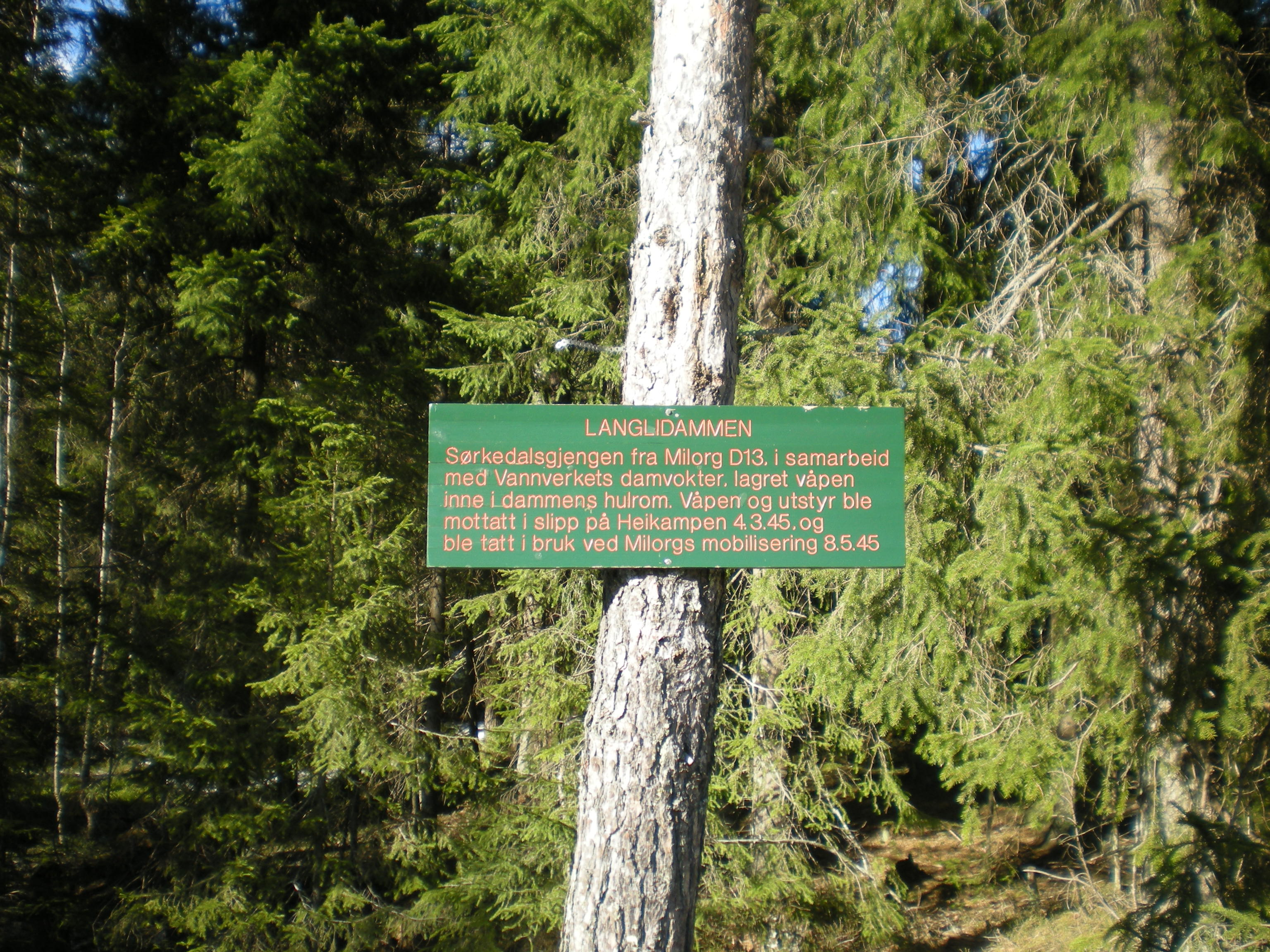 Plaquette in Norwegian. The Norwegian WW2 resistance hiding place for weapons in the Langlivannet dam in Nordmarka.